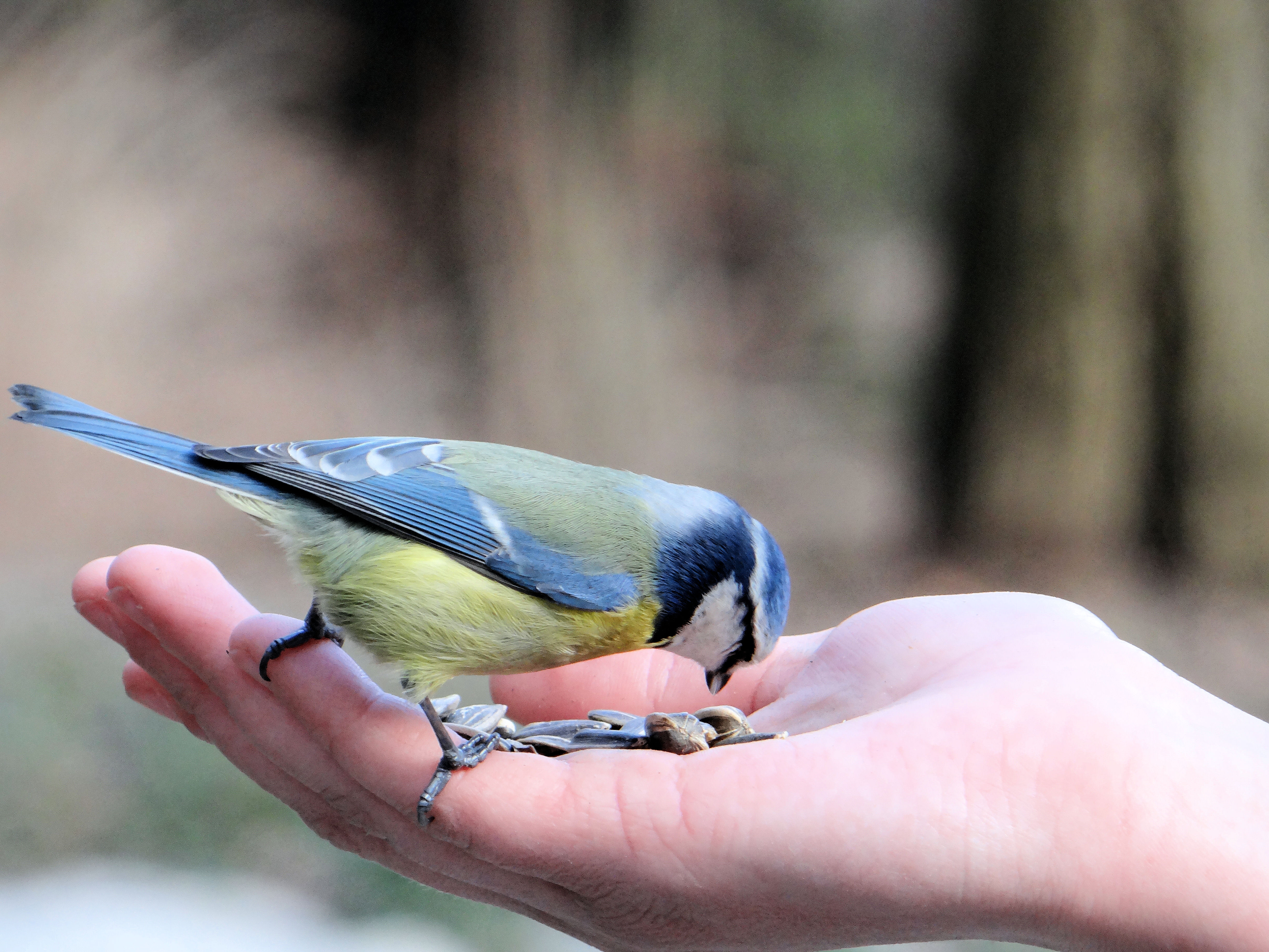 Cyanistes caeruleus Feeding